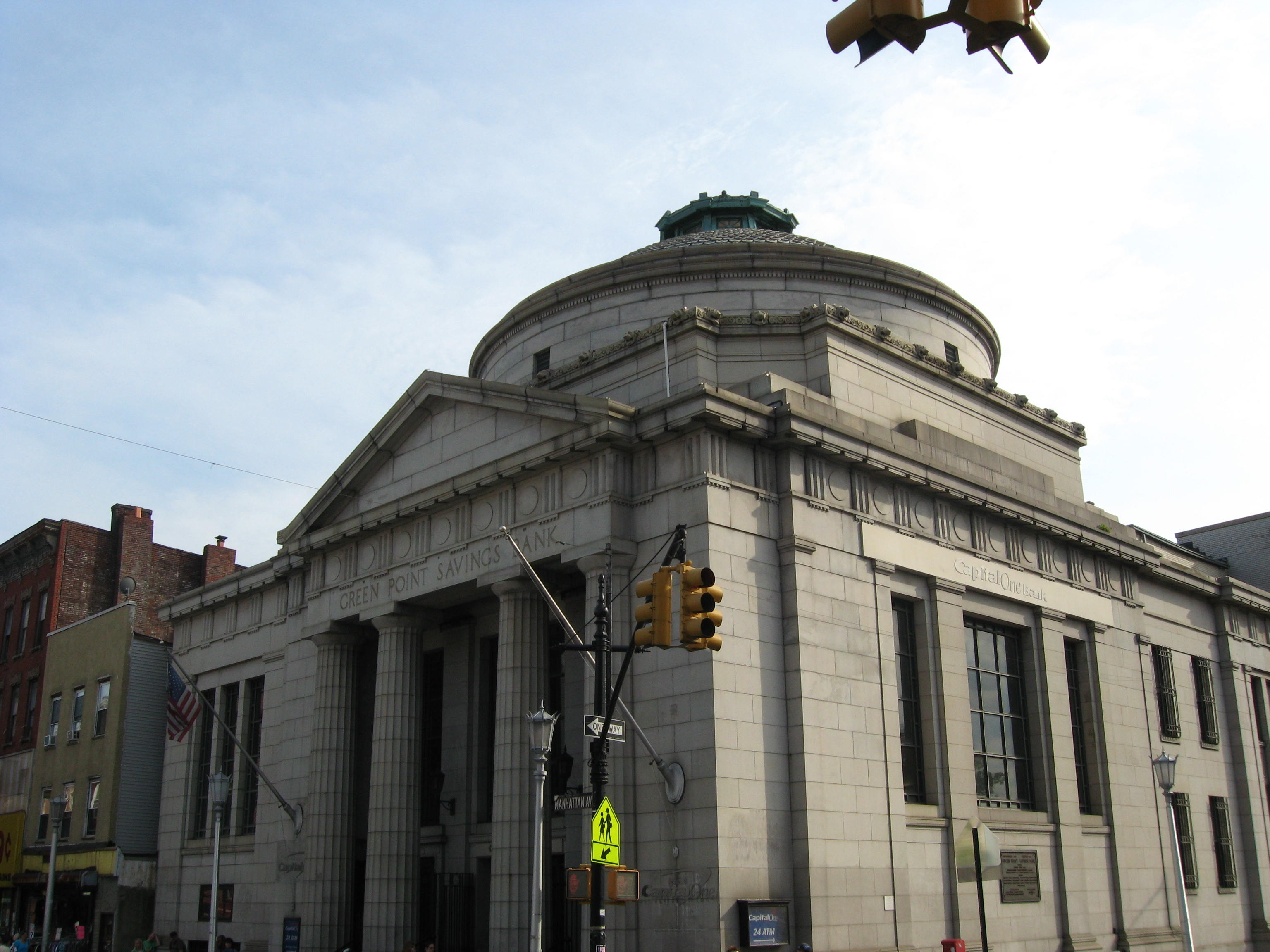 Looking southwest across Manhattan Avenue and Calyer Street at former Greenpoint Savings Bank building a block south of Noble Street in Greenpoint, Brooklyn on a mostly sunny summer afternoon.